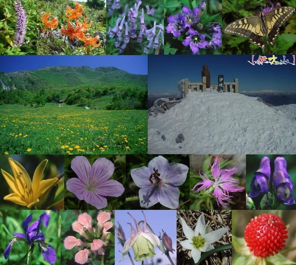 Ibukiyama_flowers_2008-11-2etc(Flowers and view in Mt. Ibuki ;Japan)